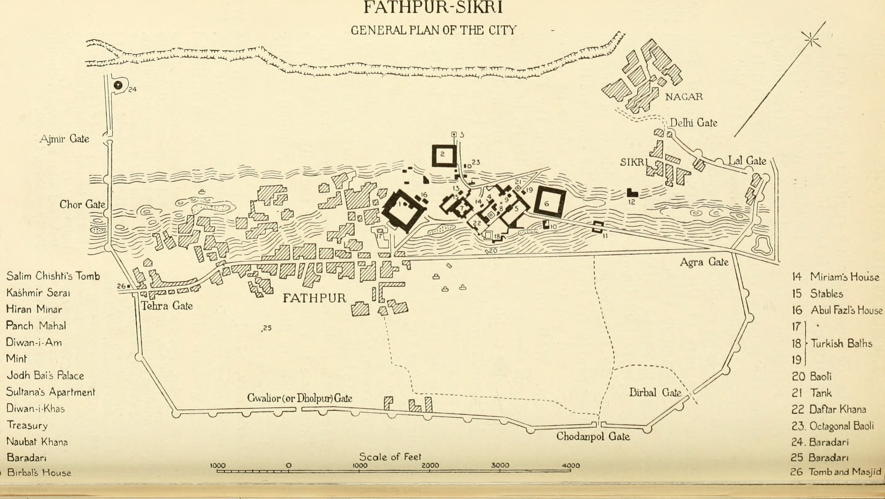 Identifier: akbargreatmogul100smituoft Title: Akbar the Great Mogul, 1542-1605 Year: 1917 (1910s) Authors: Smith, Vincent Arthur, 1848-1920 Subjects: Akbar, Emperor of Hindustan, 1542-1605 Mogul Empire India -- History 1526-1765 Publisher: Oxford : Clarendon Press Text Appearing Before Image: ntinue to exist there after the withdrawal of theourt on which its life was dependent. A small countryown has always remained. Akbars city, nearly seven miles in circumference, was Walls and Built on a rocky sandstone ridge running from NE. to SW. S^*^^- he north-western side, being protected by an artificial • Commentarius, pp. .560, 642. Monserrate was reminded of the i. peristylar building, 200 feet scriptural precedent : And the ang, was finished in three months, house, when it was in building, nd a great range of baths, with was built of stone made ready II its appurtenances, was com- before it was brought thither : soMeted in six months. All the that there was neither hammernaterial, prepared according to nor ax nor any tool of iron heardpecification {secundum proposi- in the house, while it was inam aediflcandi dcscriptionem),wafi building (1 Kings vi, 7). For)rought complete and ready to 13ahau-d din see E. W. Smith,^he place where it was to be used. Fathpnr-Slkn, iv, 30. Text Appearing After Image: ajrO-^LnX)K00(ny — Si